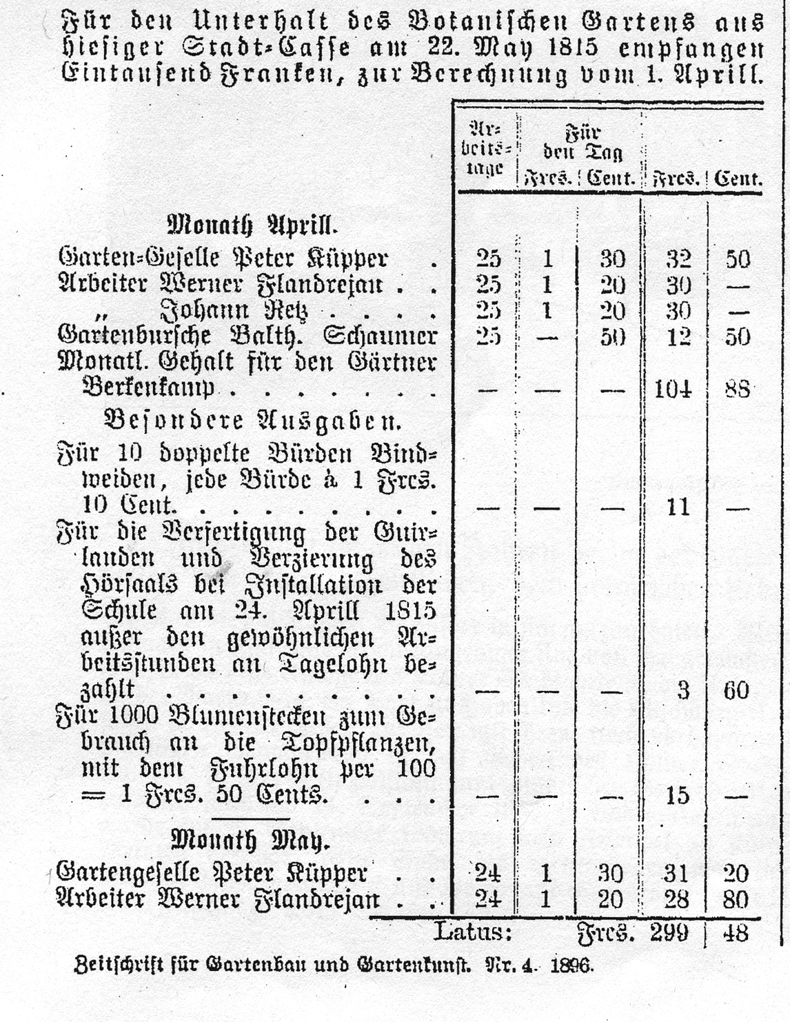 Cologne, specification of costs 1815